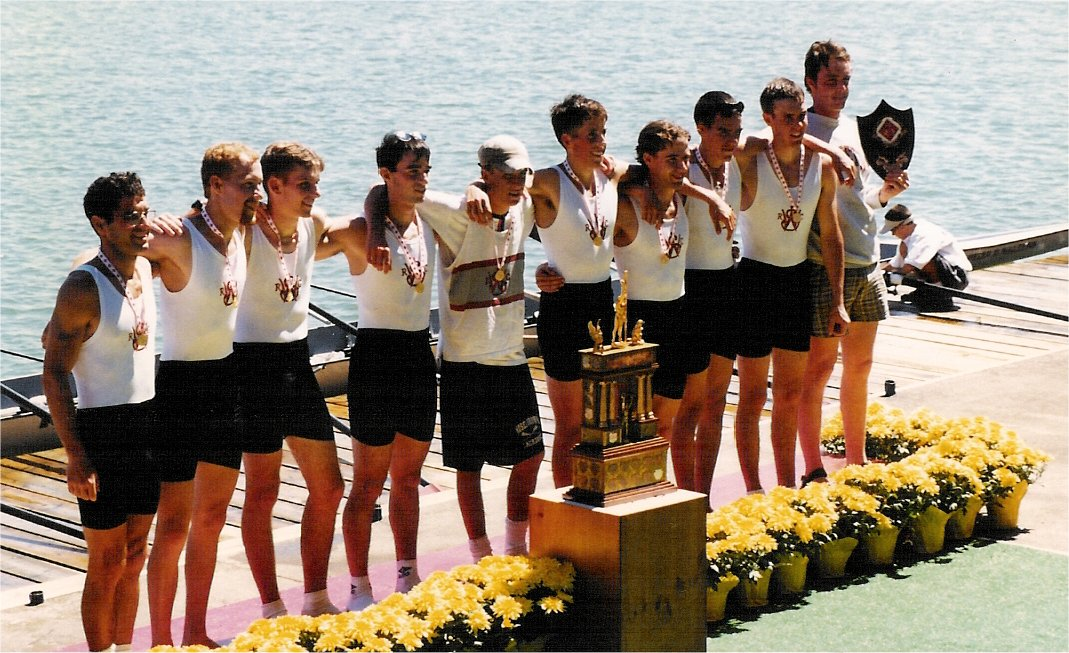 Men's lightweight eight gold medal winners at the Royal Canadian Henley Regatta, 1996. Taken by me while attending the races. Pschemp 03:01, 5 March 2006 (UTC)